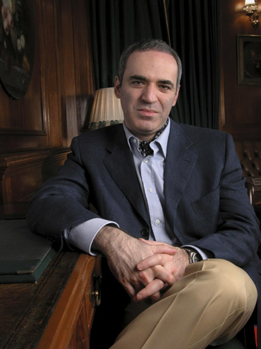 Garry Kasparov